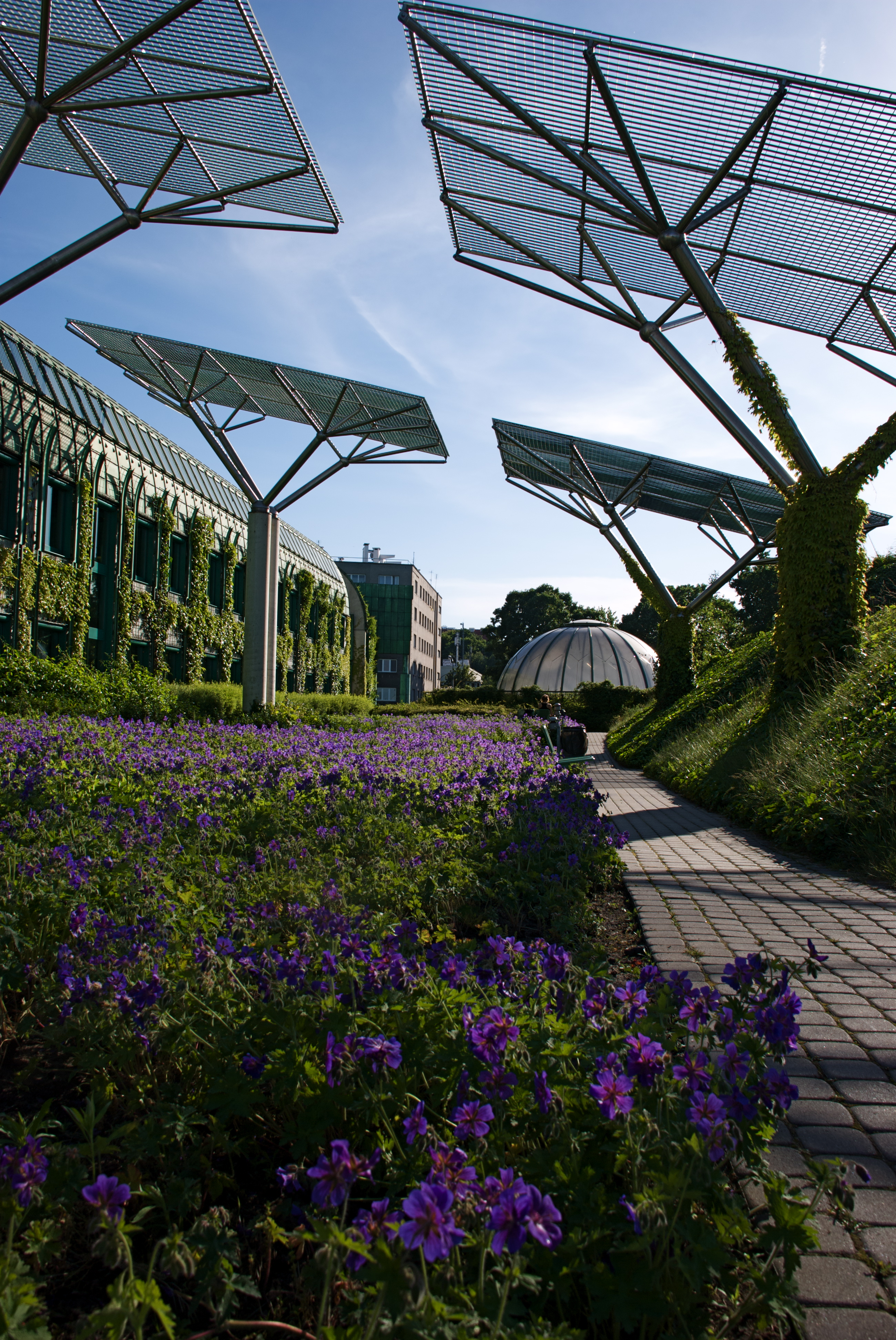 Gardens of Library of Warsaw University